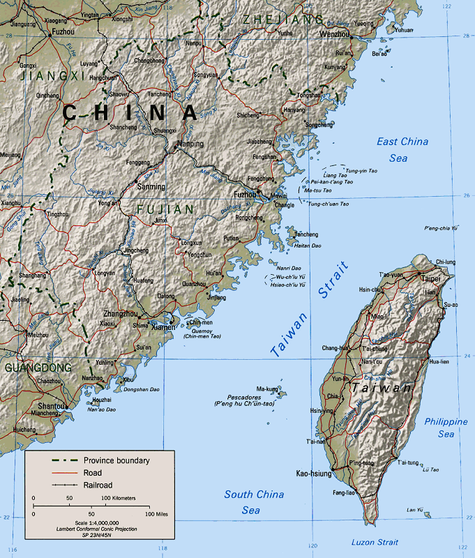 Map of the Taiwan StraitBân-lâm-gú: Tâi-uân Hái-kiap. 臺灣海峽中文（中国大陆）: 台湾海峡地图